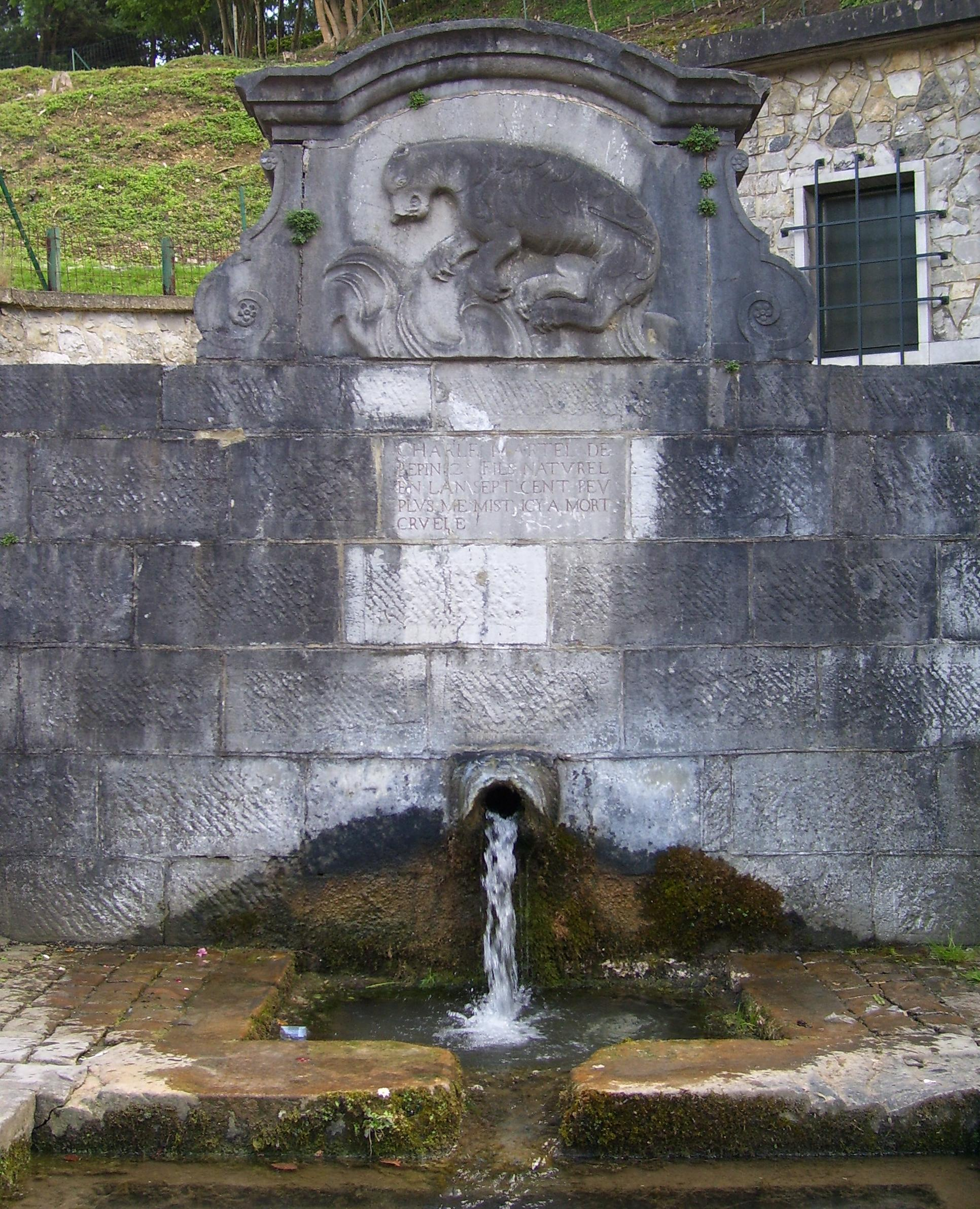 Bear's fountain in Andenne, Belgium. Inscription: "Charle Martel de / Pepin 2 Fils naturel / en lan sept cent peu / plus me mist icy a mort / cruele" (which means as much as: Charles Martel son of Pepin II killed me here cruely about the year 700).